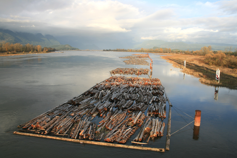 Pitt River, view looking north, photo taken from the Lougheed Highway bridge between Port Coquitlam and Pitt Meadows